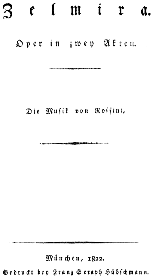 Gioachino Rossini - Zelmira titlepage of the libretto - Munich 1822